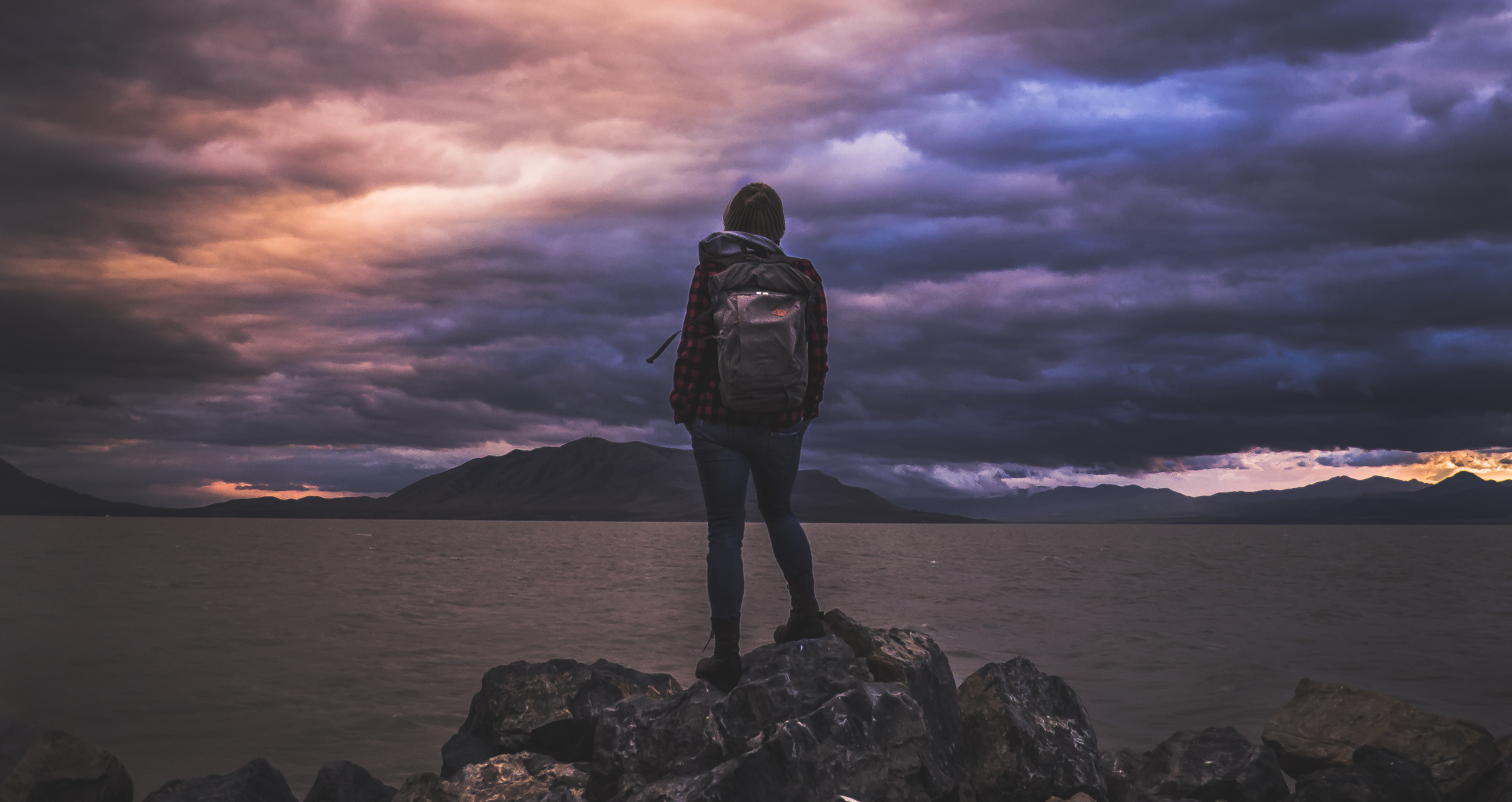 Utah Lake State Park, Provo, United States